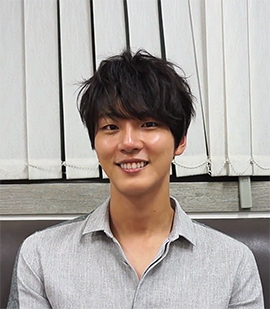 Yoon Shi Yoon during a video message for his 6th fan meet in Japan.